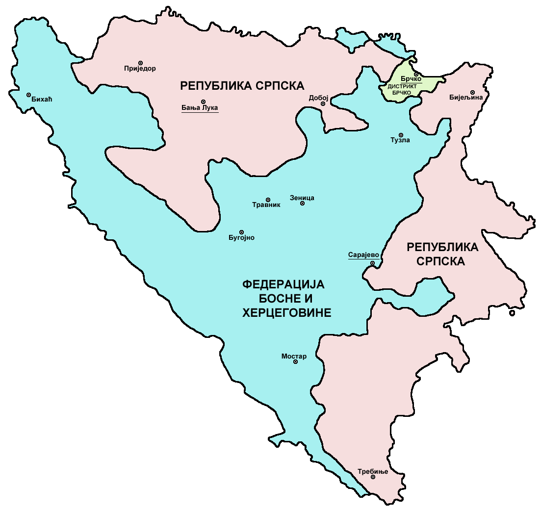 Map showing political division of Bosnia and Herzegovina: Federation of Bosnia and Herzegovina, Republika Srpska and Brčko District.